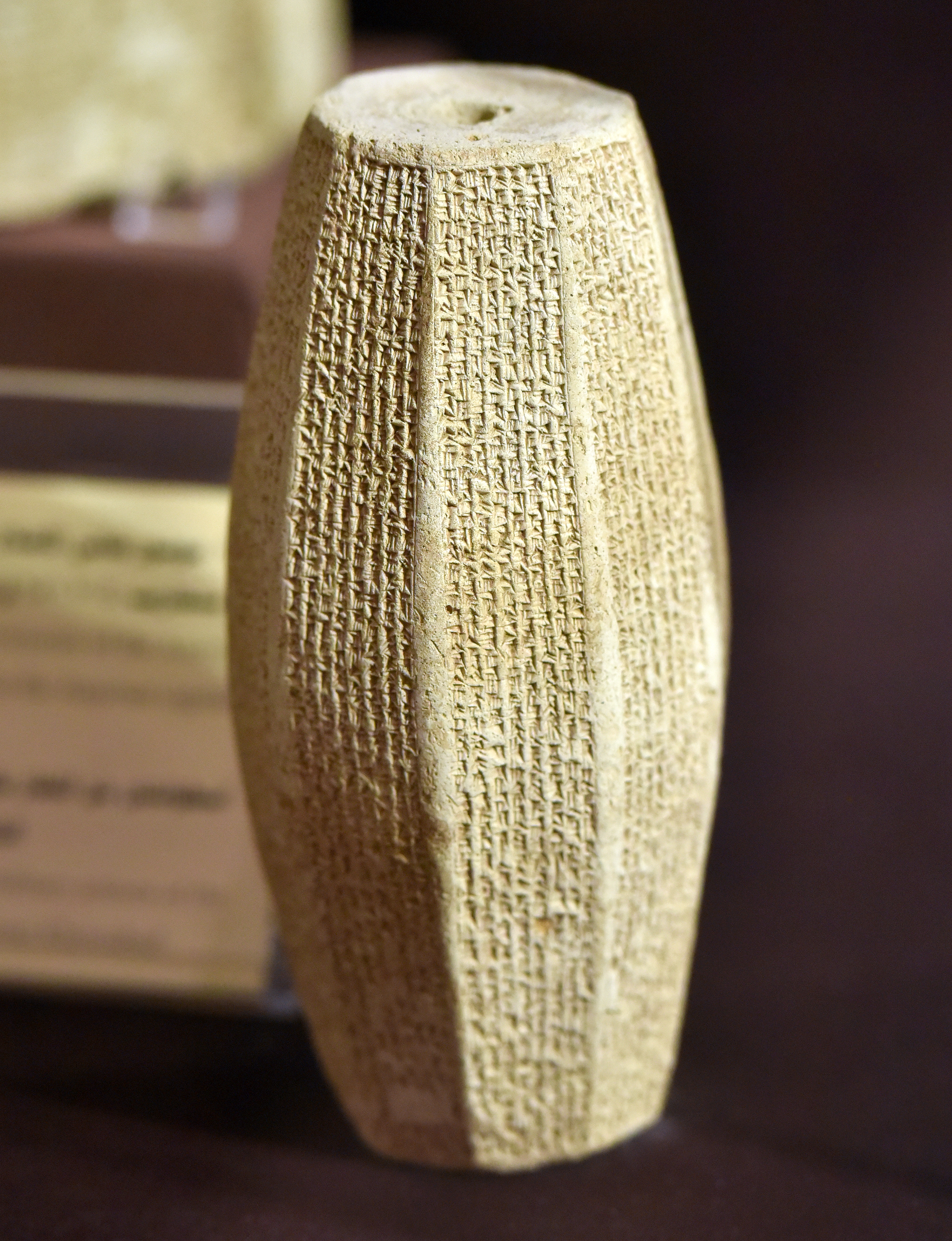 A terracotta cylinder (9 facets with cuneiform inscription) of Sargon II narrating his military campaigns. From Khorsabad (Dur-Sharrukin), Iraq. c. 710 BCE. Iraq Museum